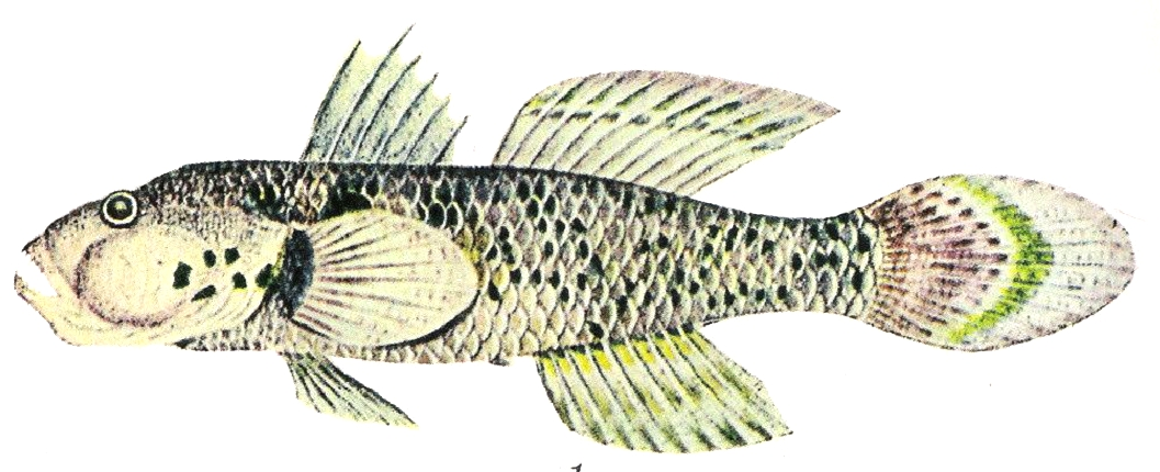 Acentrogobius viridipunctatus (Valenciénnes 1837)